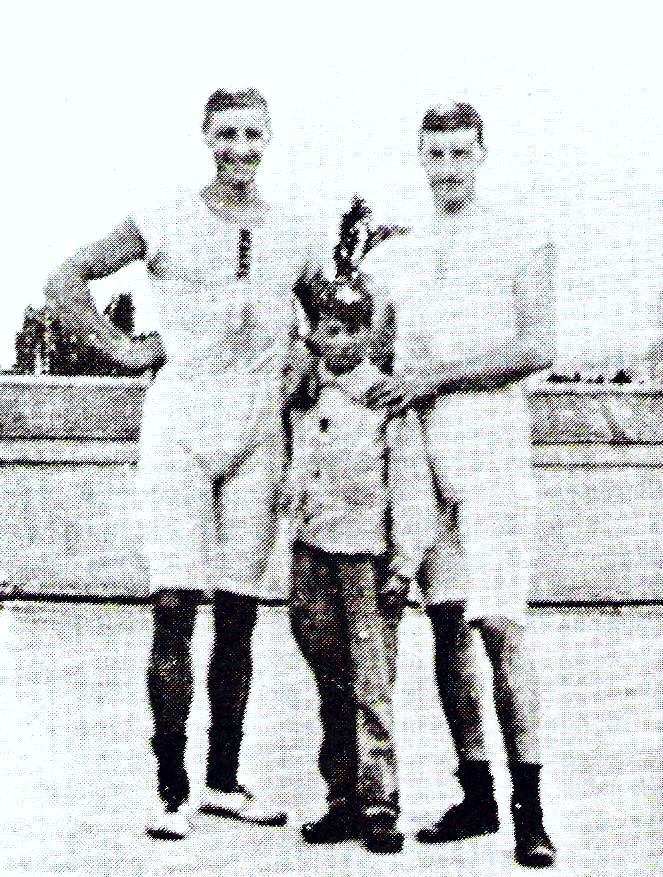 The winning men’s coxed pairs rowing team at the 1900 Olympic Games photography, reproduction, no restrictions on use